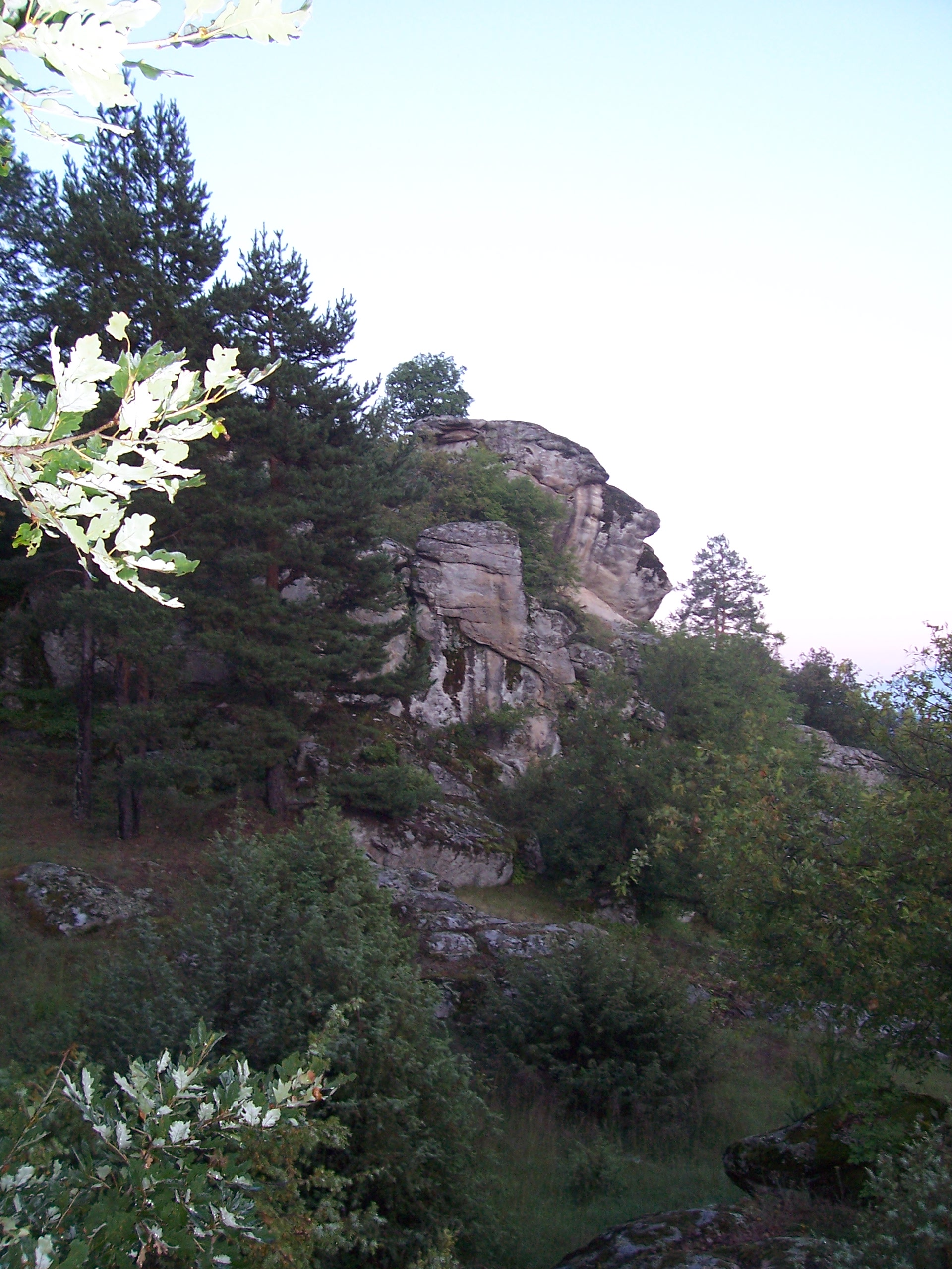 A rock in the form of a head - part of the prehistoric and ancient Thracian shrine near the village of Dolno Dryanovo.